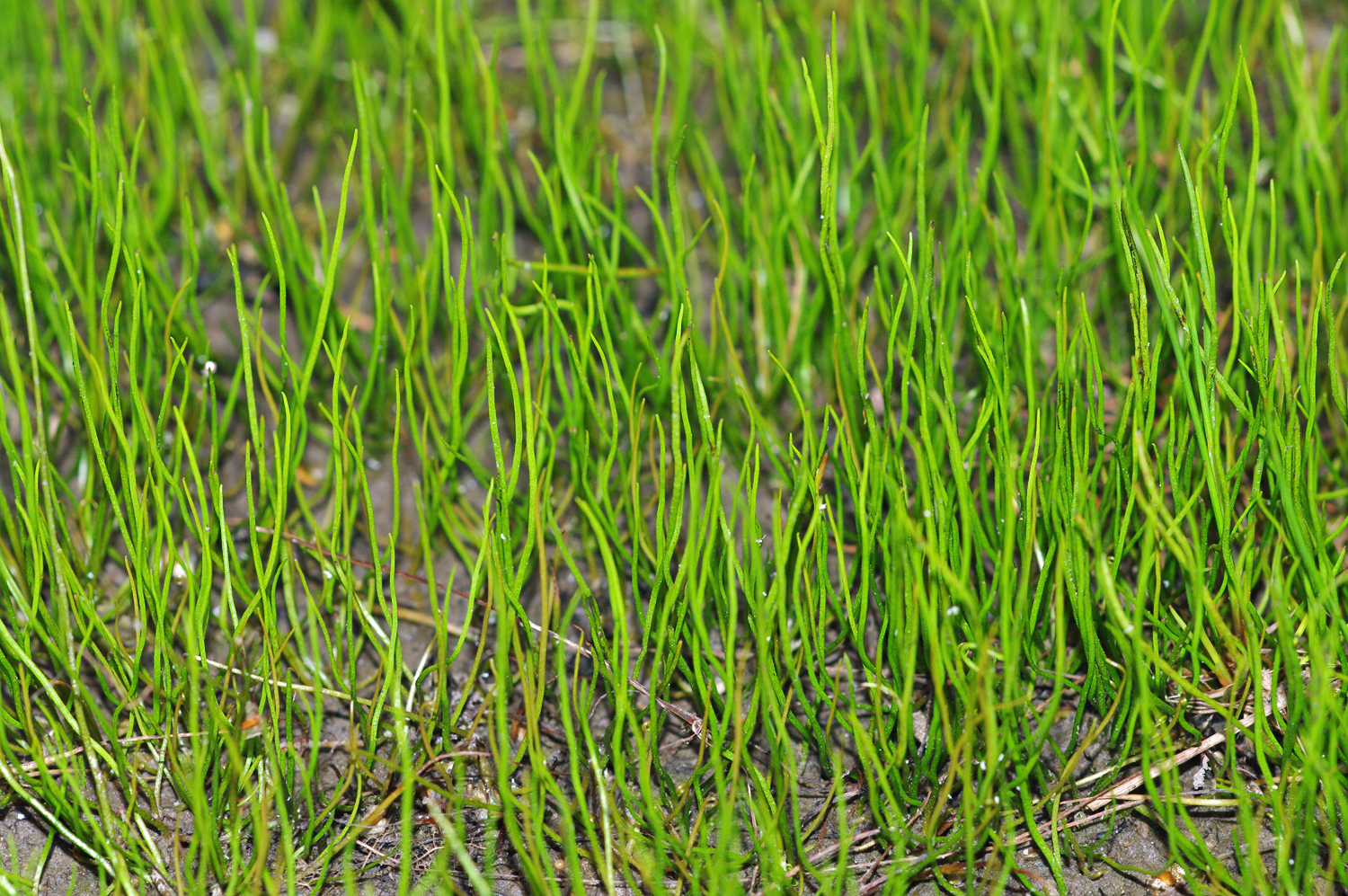 Plants of the fern species Pillwort, Pilularia globulifera. It doesn't look like a fern but more like a little rush.